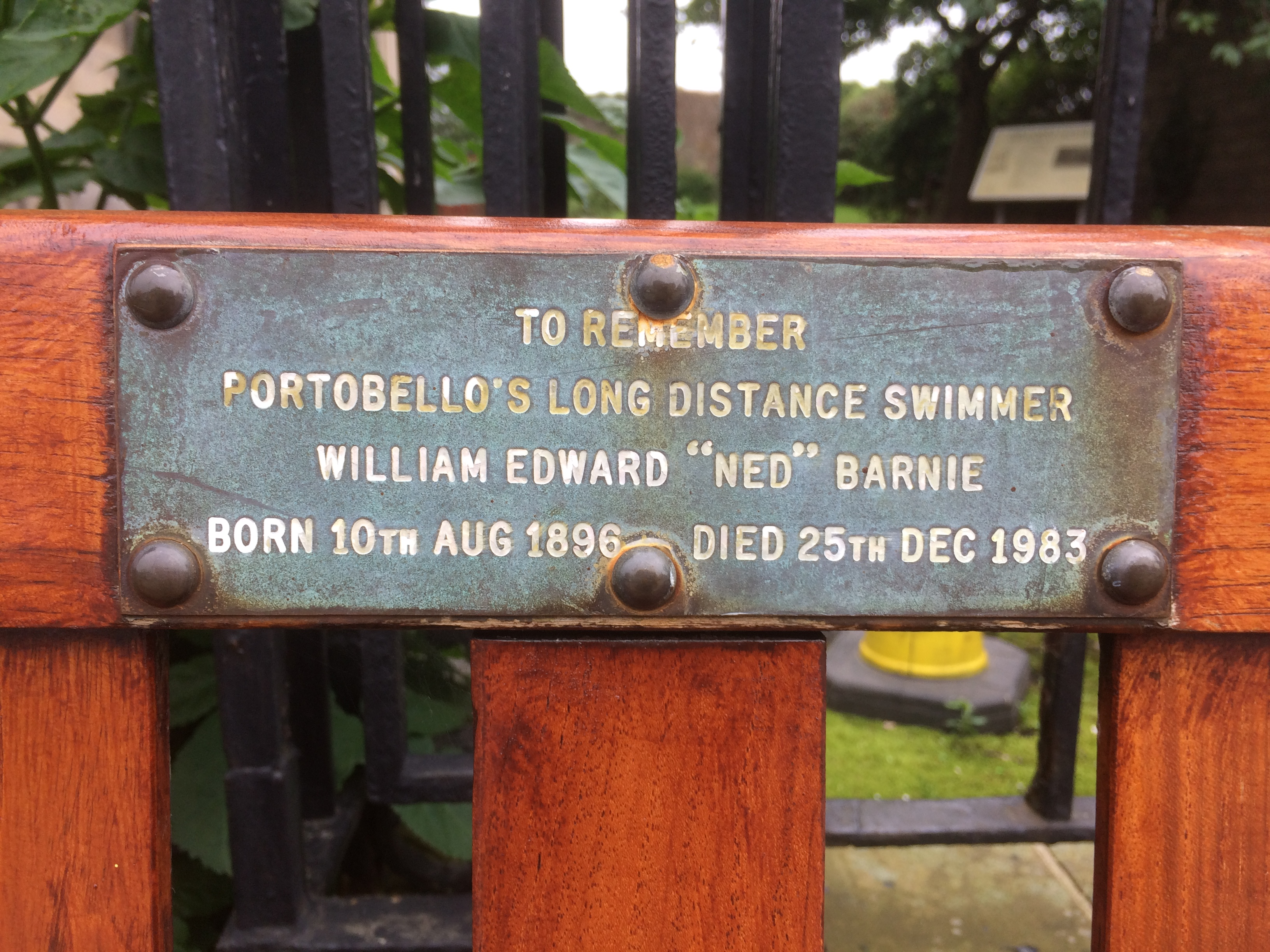 The plaque is attached to a bench in Portobello High Street, Edinburgh, recognising Barnie's cross-Channel and other long-distance swims